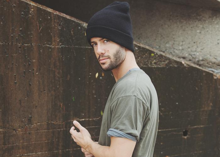 Headshot of Travis Garland